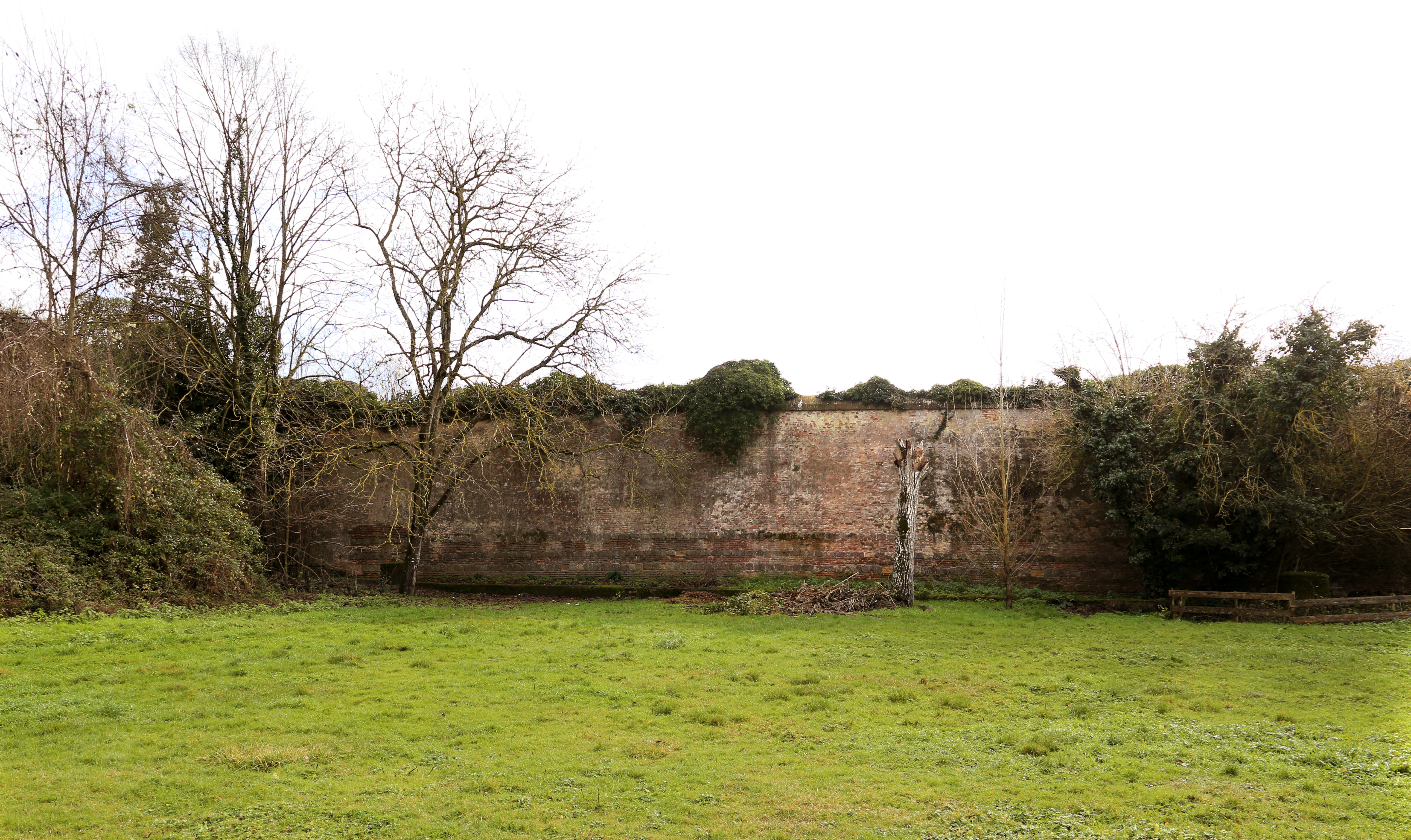 Valdimontone